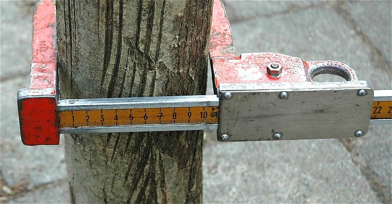 Callipers, Forest measurement